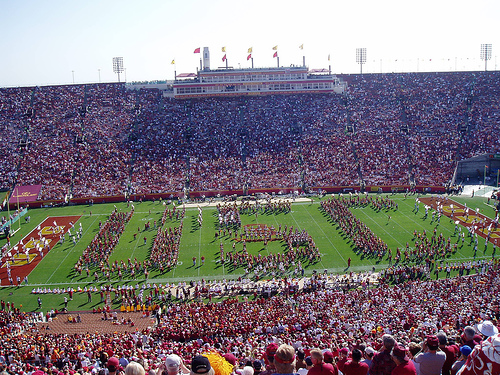 University of Southern California Band before a game in 2006.